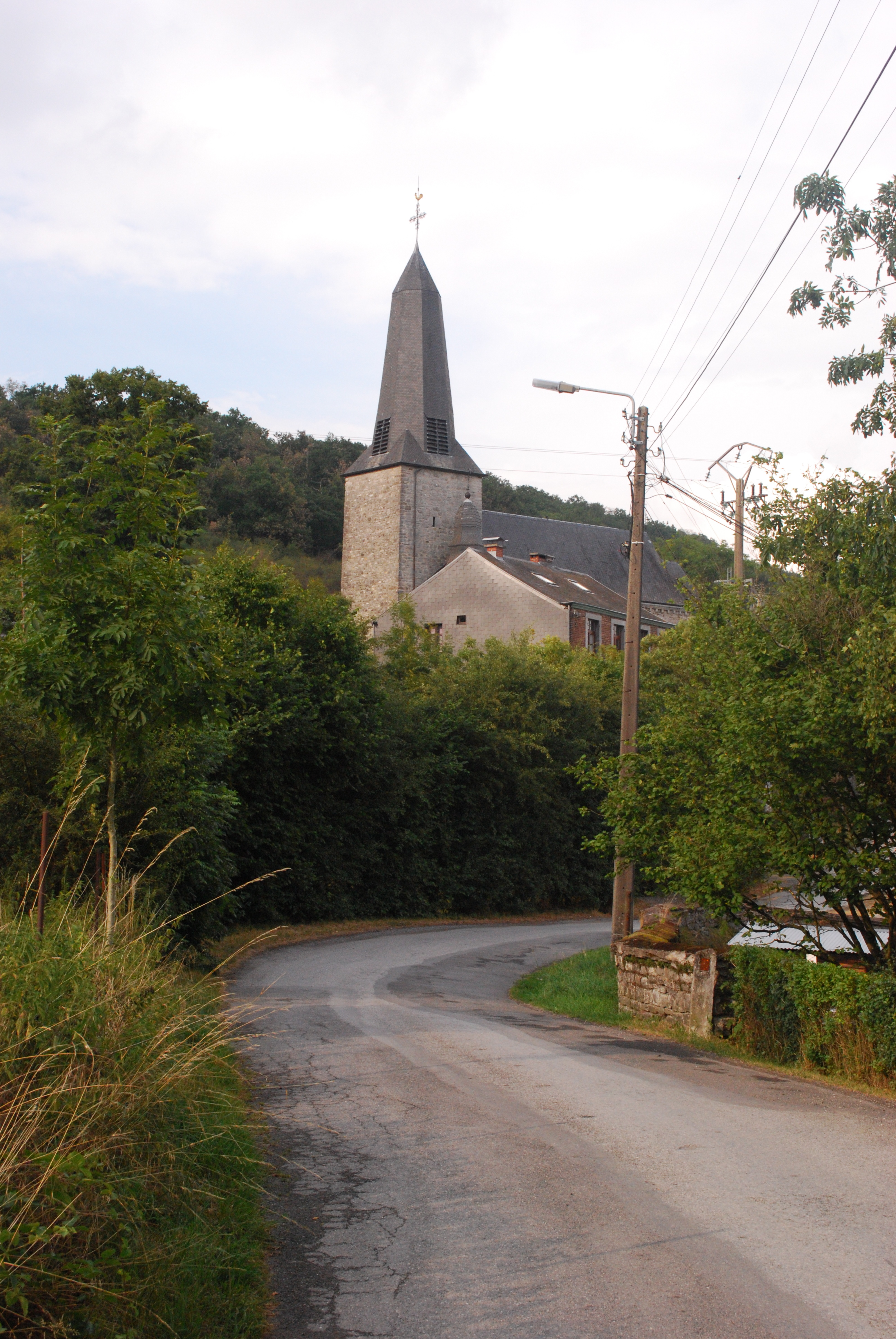 L'église Sainte-Marguerite à Grande-Enneille (Grandhan, Durbuy).